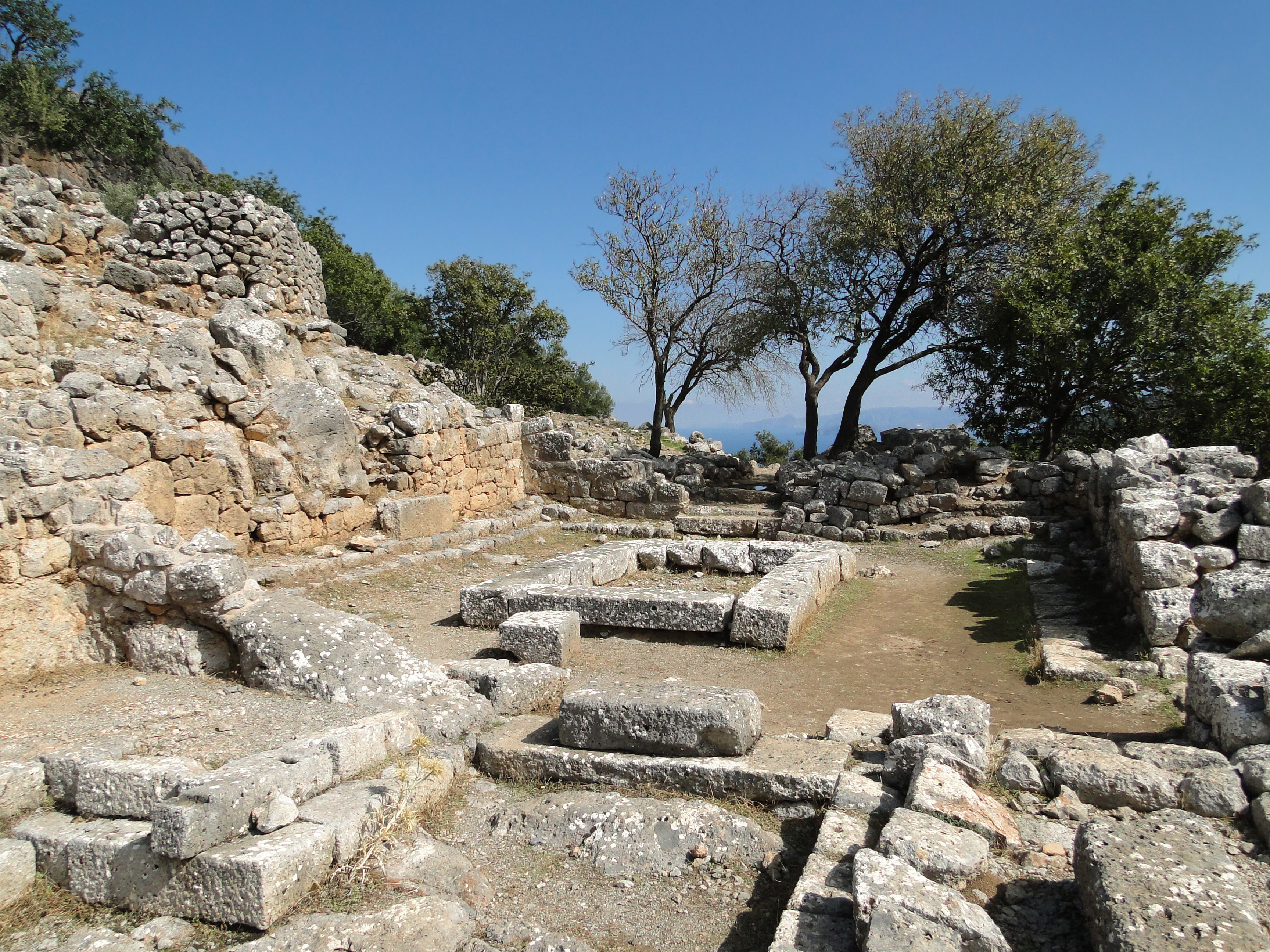 The East room of the Prytaneion, Lato, Crete, Greece